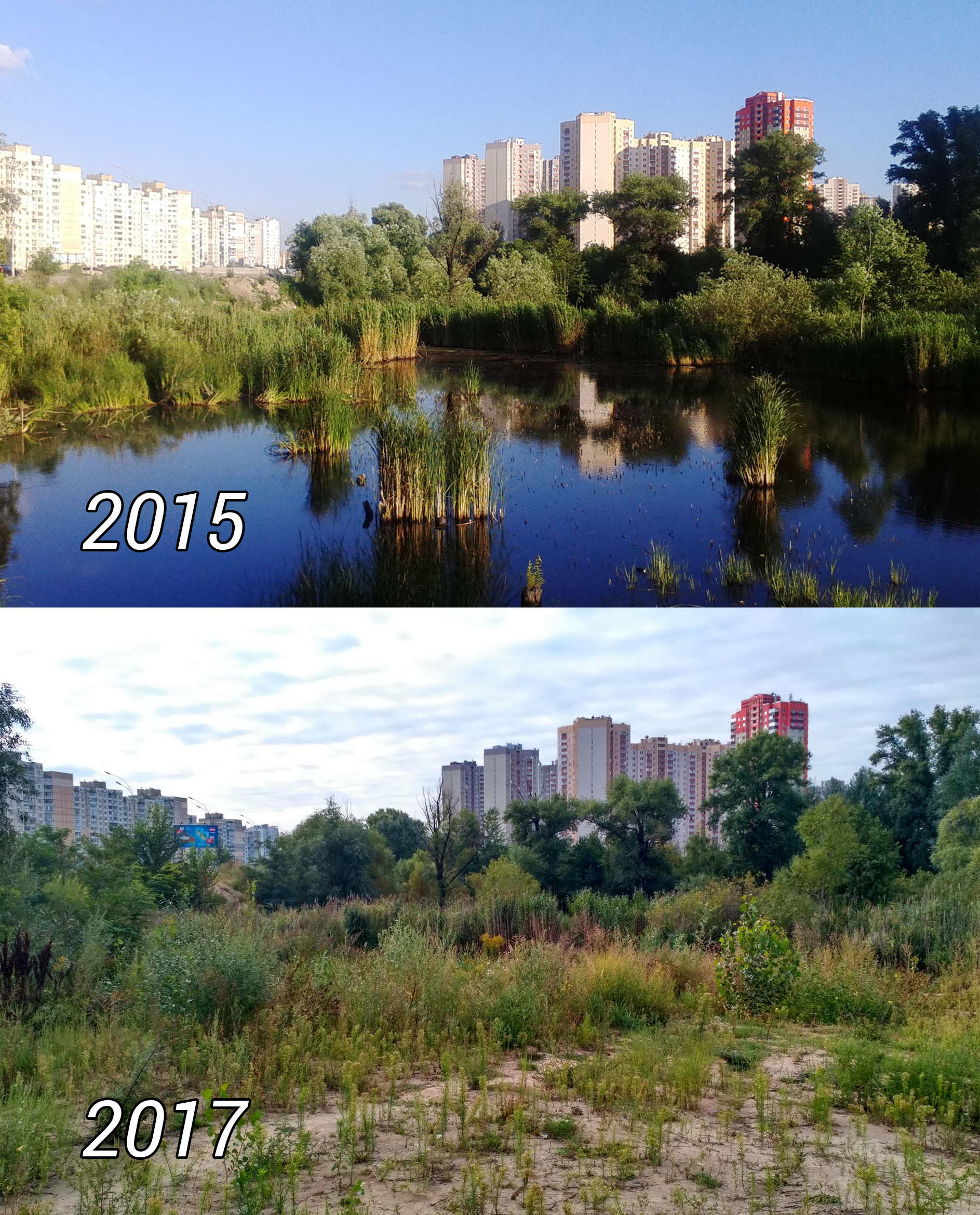 Kachyne Lake in 2015-2017